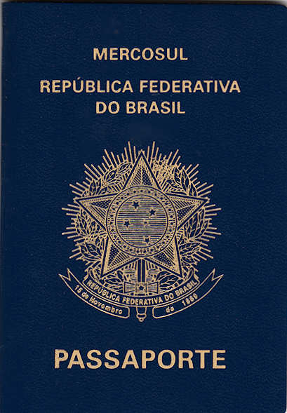 Cover of the new Brazilian passport (second half of 2006).